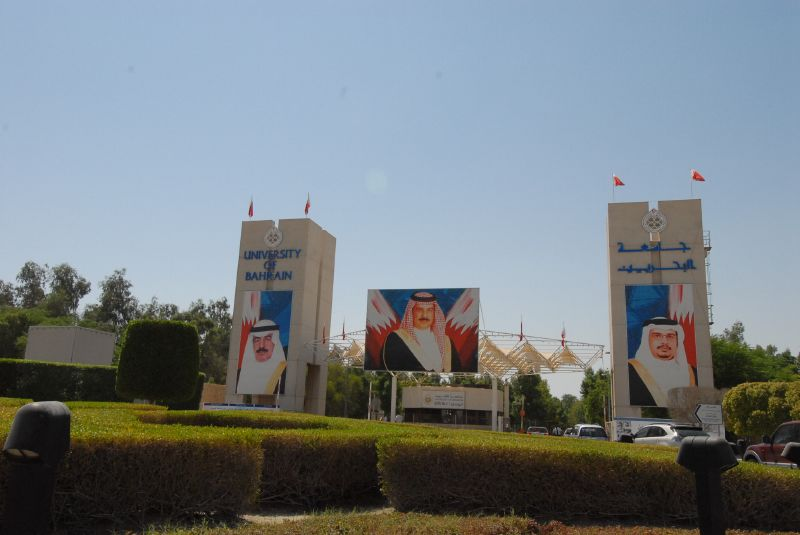 Entrance to the University of Bahrain campus, in Bahrain. Photograph taken in 2007.